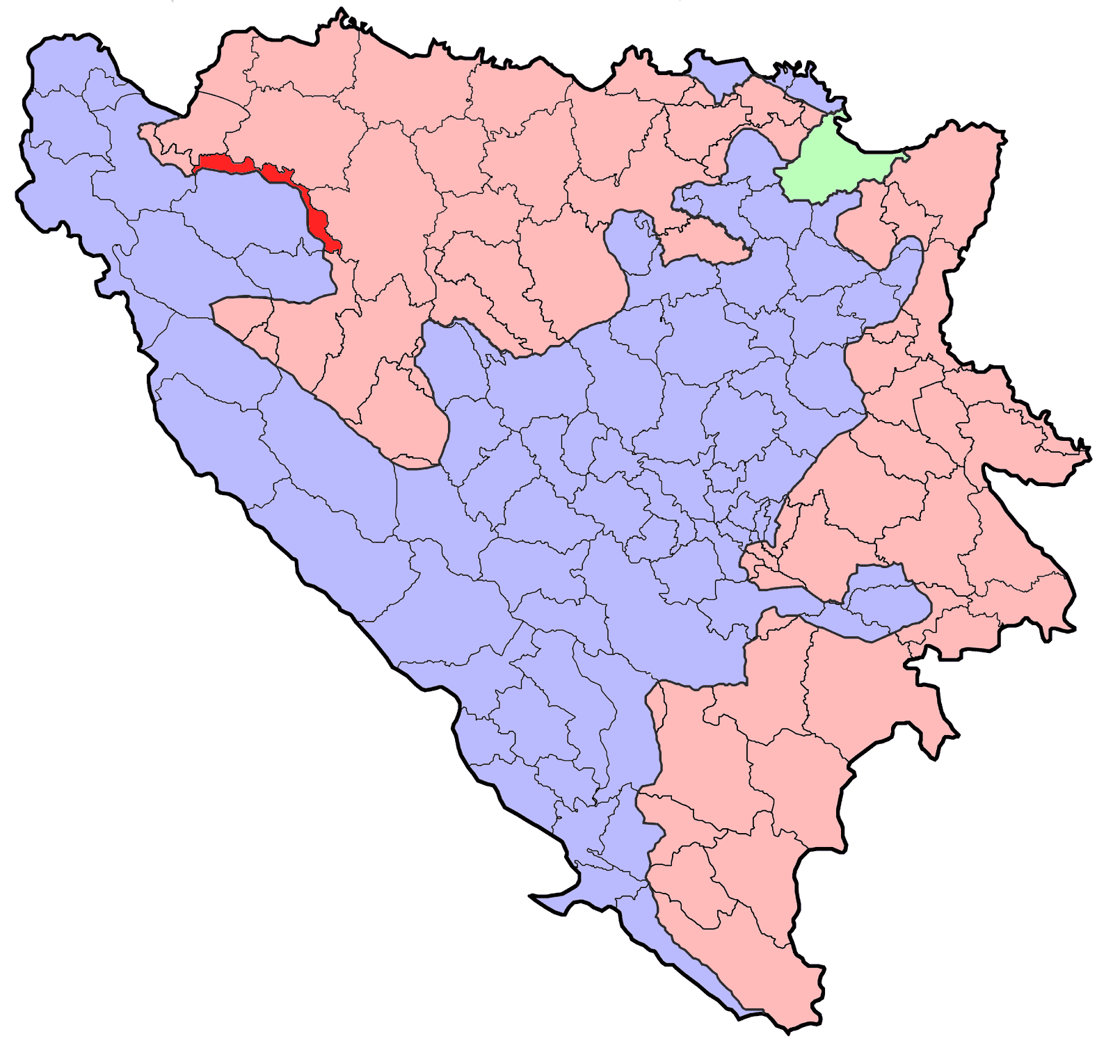 Location of Oštra Luka municipality in Bosnia and Herzegovina.